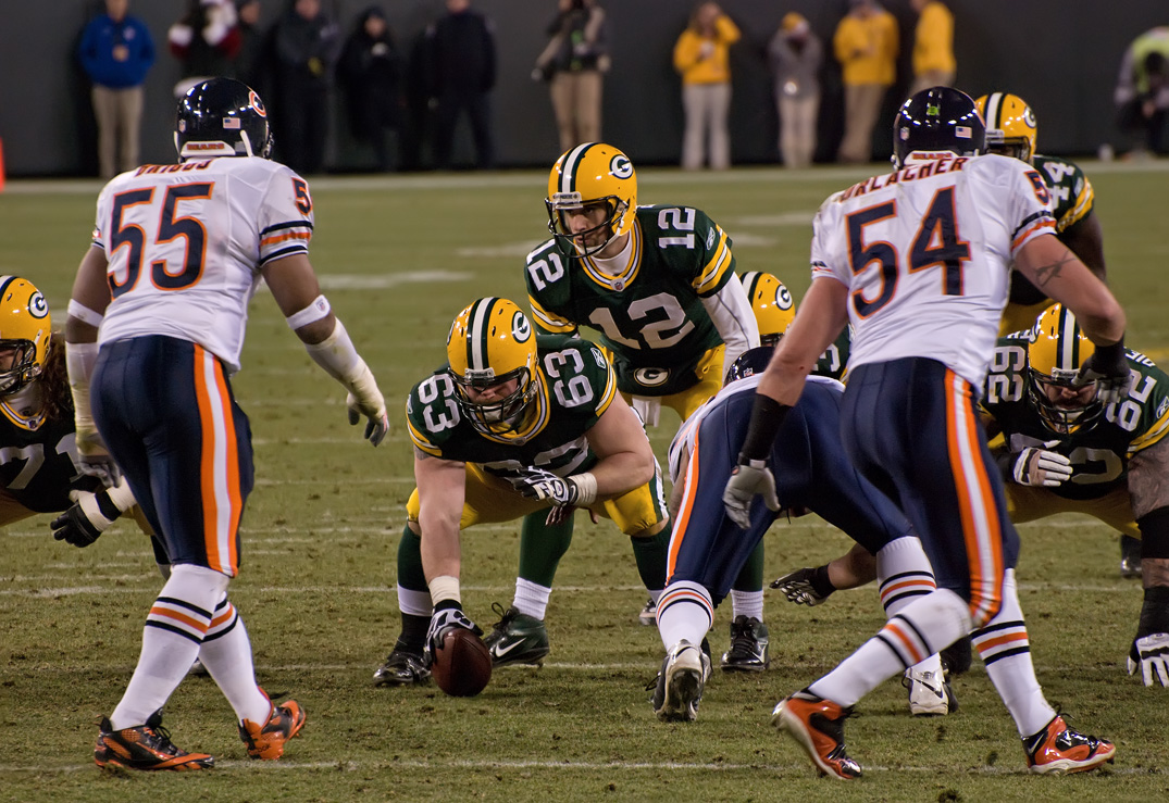 Chicago Bears vs. Green Bay Packers at Lambeau Field on December 25, 2011. Photo by Mike Morbeck.